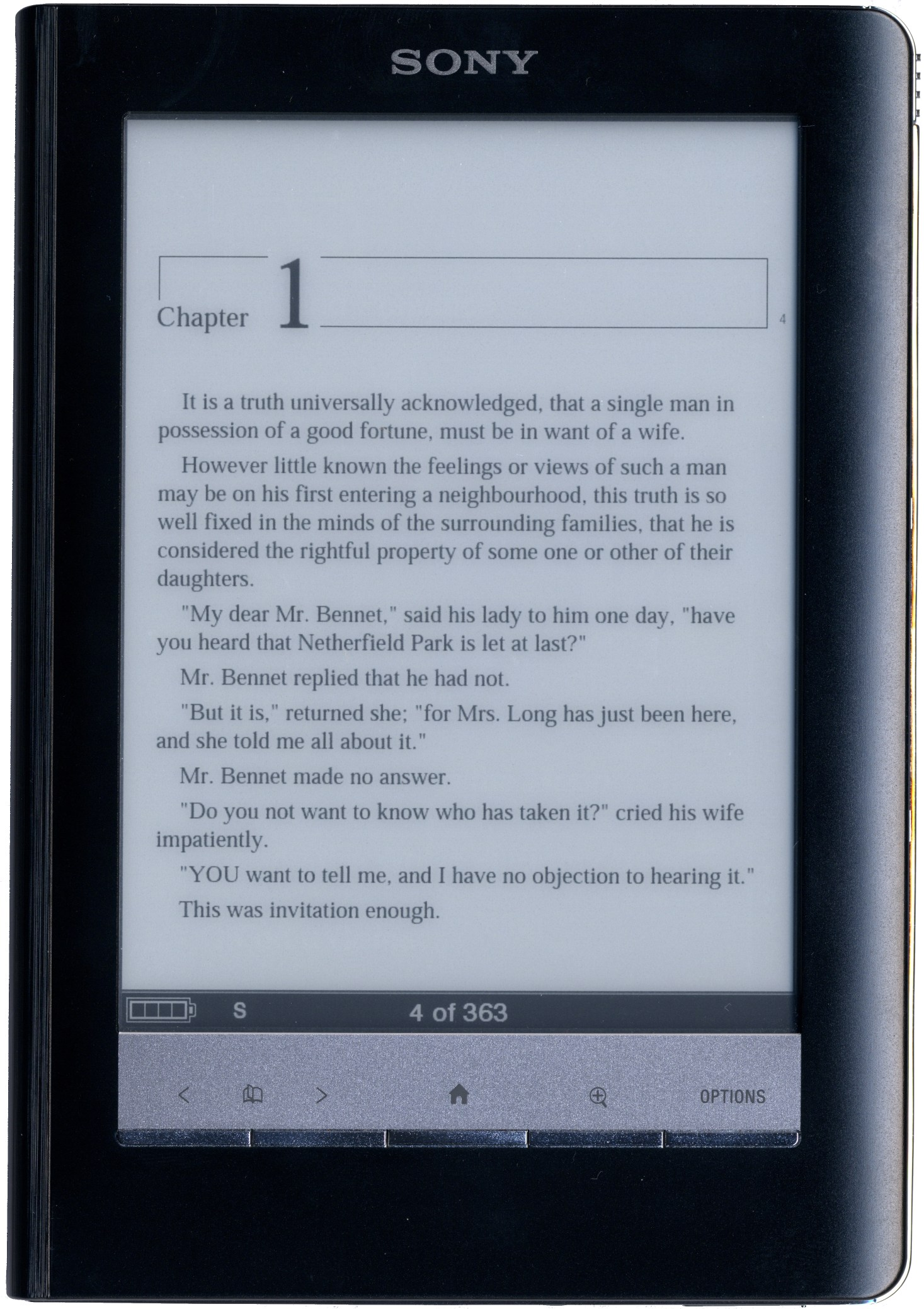 This is a scan of the Sony Reader Touch edition displaying Austen's Pride and Prejudice on the small font size setting. The image was made using a flatbed scanner, which, I think, is why the text is slightly out of focus--the Reader's bezel raises the screen surface above the glass scanning surface.